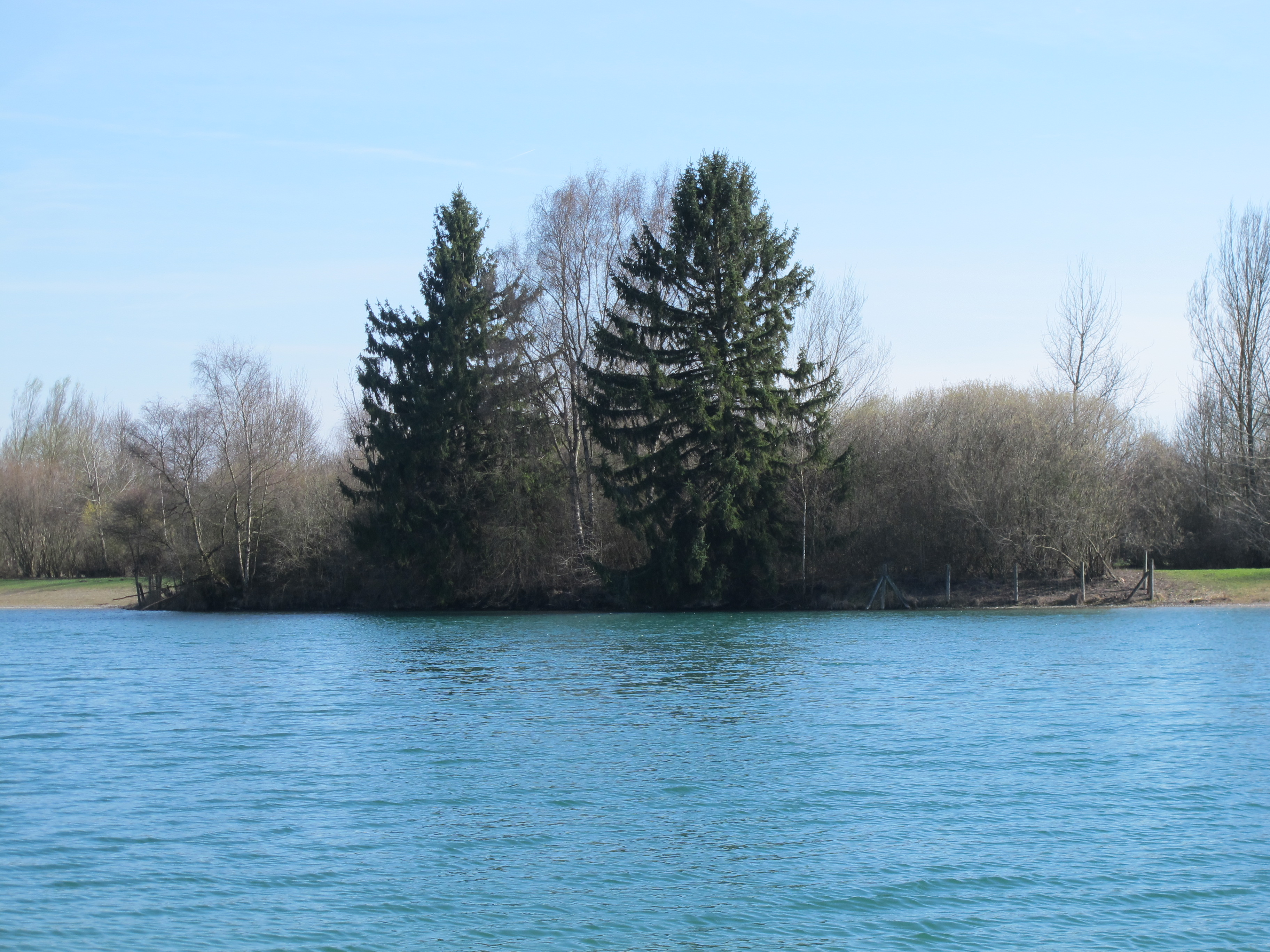 Birkensee, which is part of the Langwieder Lakes in march 2017